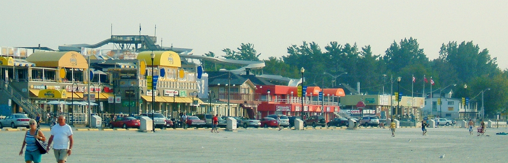 Wasaga Beach, historic strip looking west.